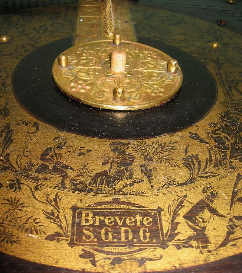 Top of an Ariston without disk; (this model was built in France)